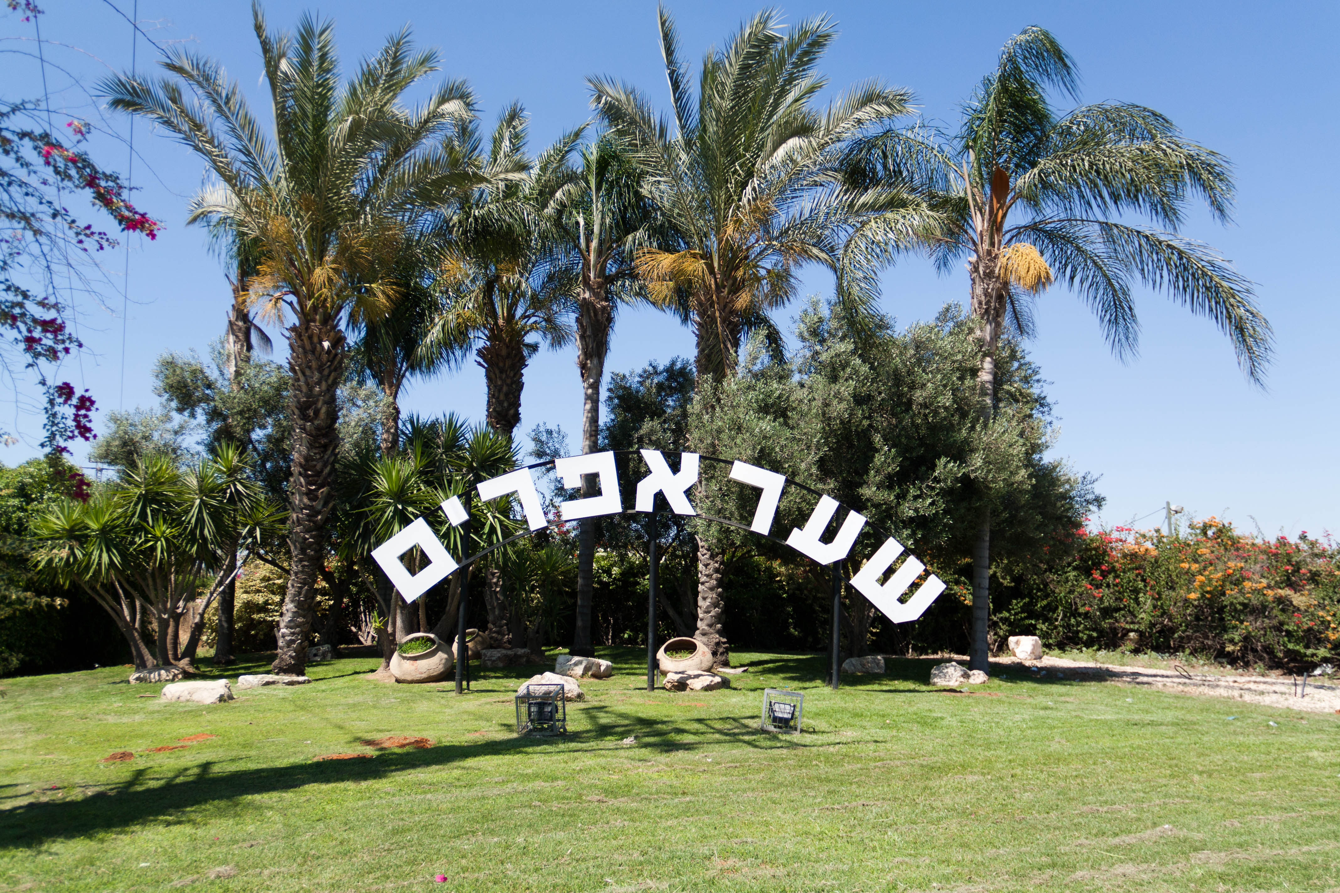 Entrance to Sha'ar Efraim